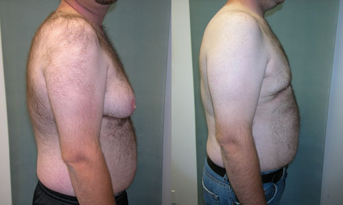 Grade III gynecomastia